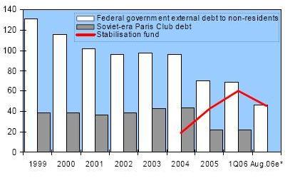 Russian public debt